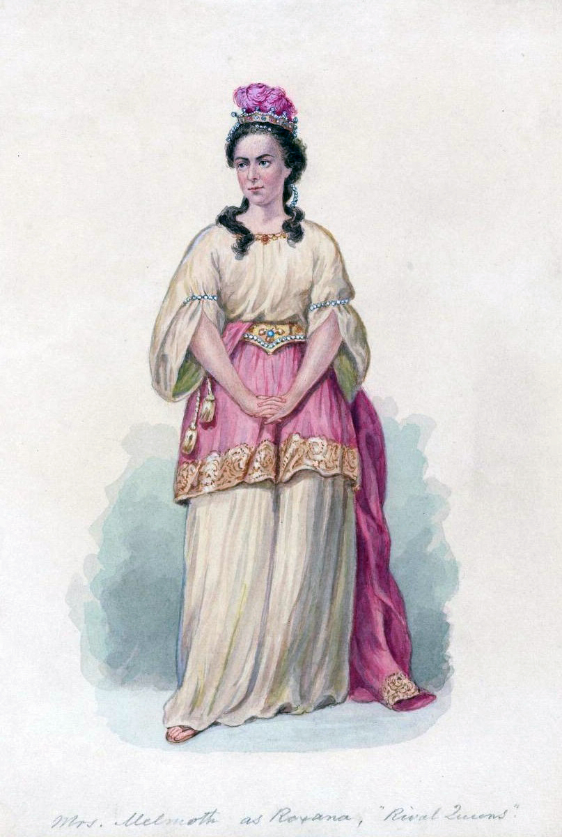 Portrait: Charlote Melmoth as Roxana, "Rival Queens". Undated, but presumably before 1823. Theatrical Portrait Prints (Visual Works) of Women (TCS 45). Harvard Theatre Collection, Houghton Library, Harvard University